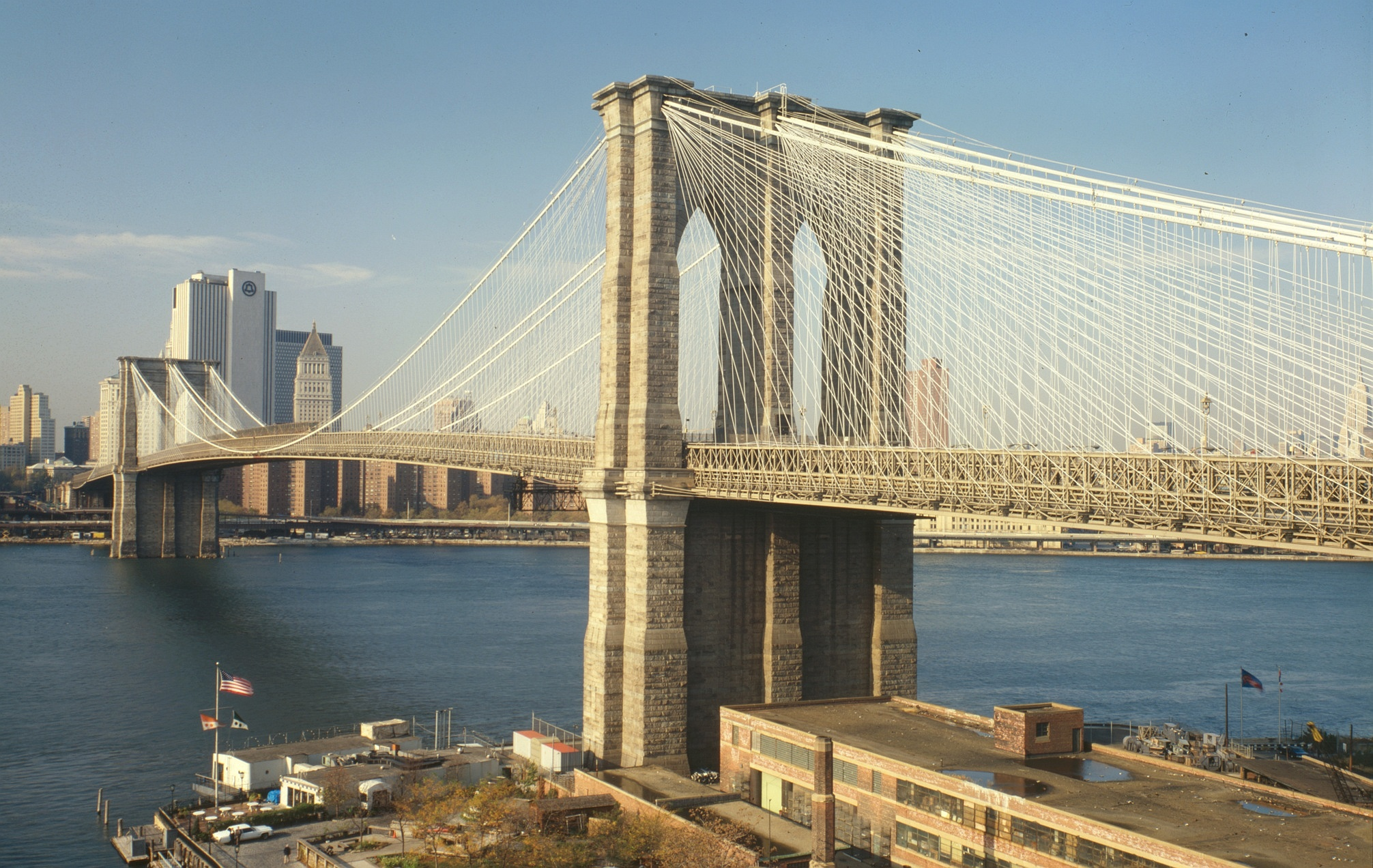 Brooklyn Bridge, spanning East River between Brooklyn & Manhattan, New York City, New York County, NY. View looking north with former Brooklyn ferry slip in foreground